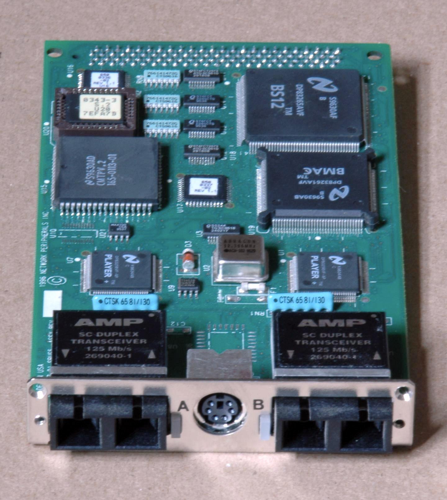 Dual-attach sbus FDDI card with SC connectors and a DIN power connector for an external optical bypass unit.